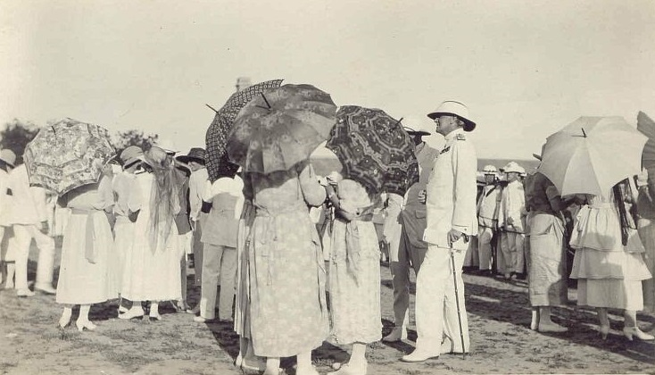 Admiral Sir Alexander Duff at a public event in Weihaiwei. Admiral Duff was the Royal Navy's Commander-in-Chief, China Station, in 1919-1922. Real photo postcard, c. 1919-1922.